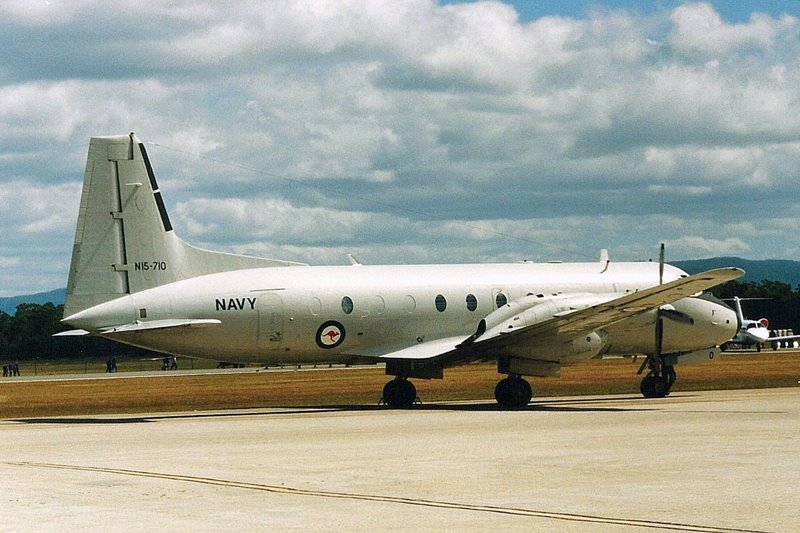 One of two Hawker Siddeley HS 748s to serve with 723 Squadron of the Royal Australian Navy. Image scanned from a 6"x4" photograph of N15-710 taken by YSSYguy at HMAS Albatross, Nowra, New South Wales on 1 November 1998.